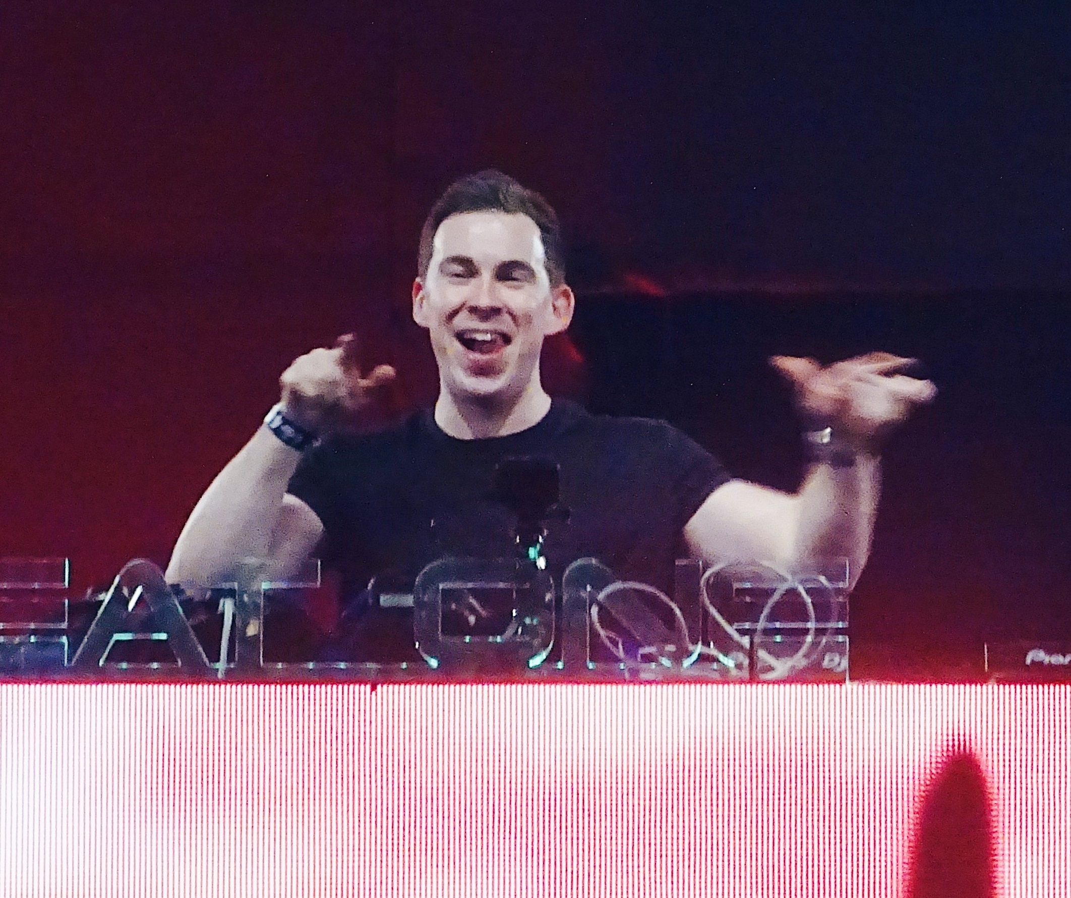 Hardwell playing live at Airbeat One Festival 2017 in Neustadt-Glewe, Germany.